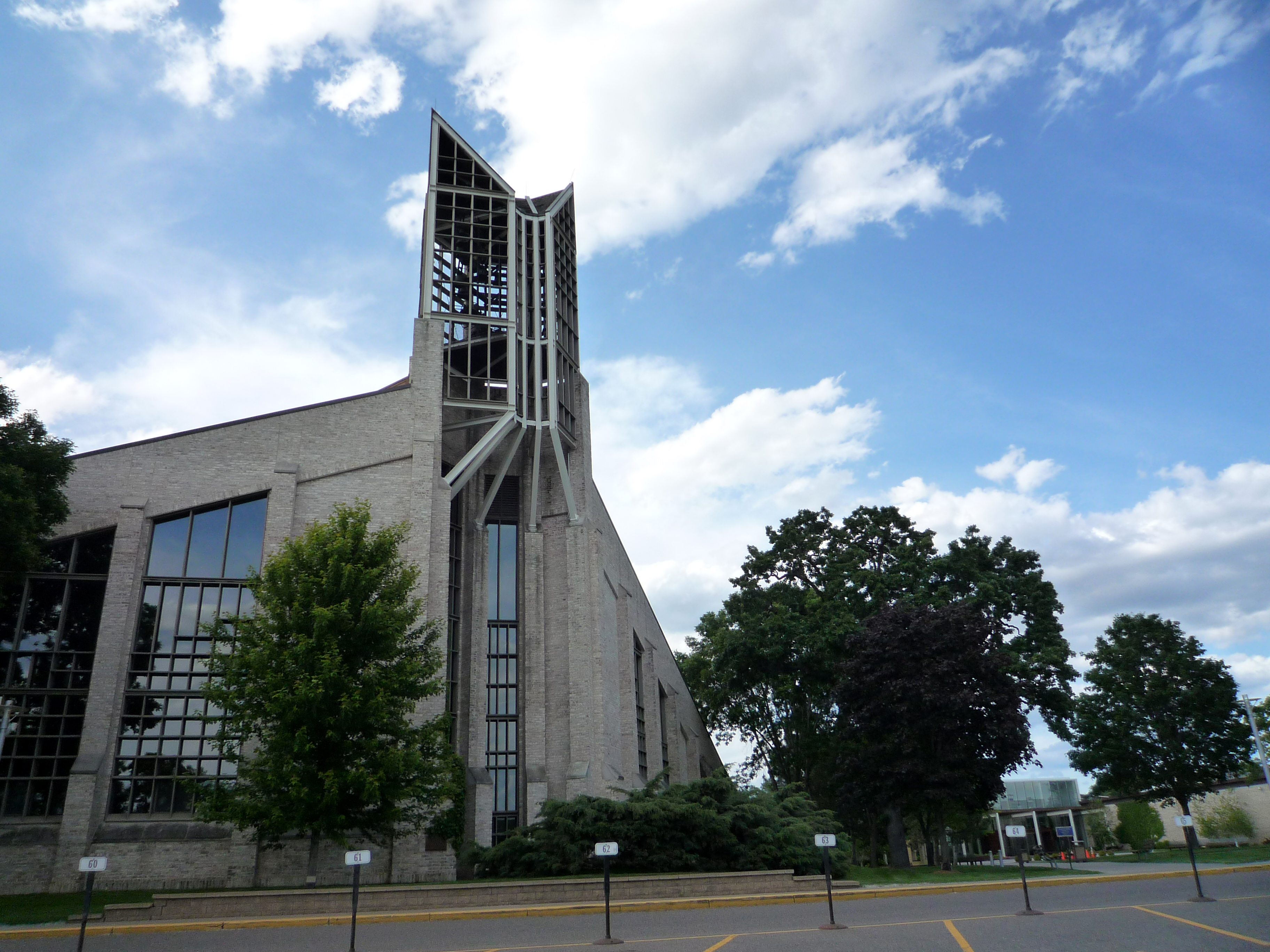 Breck School, Golden Valley, Minnesota, USA. The Chapel of the Holy Spirit is in the foreground.